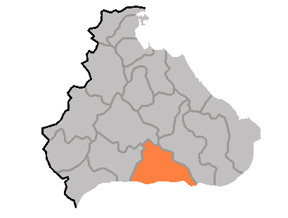 Gimhwa county map